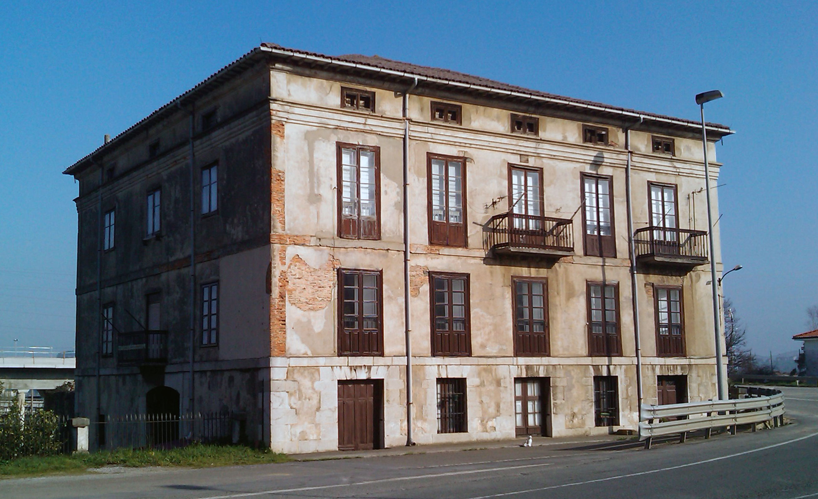 Former offices of mining company Minas Complemento in San Salvador, Medio Cudeyo, Cantabria, Spain